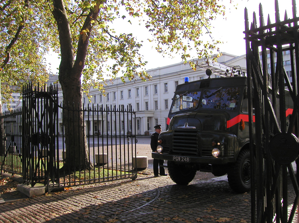 'Green Goddess', or Bedford RLHZ Self Propelled Pump, a fire engine used originally by the Auxiliary Fire Service (AFS), and latterly by the British Armed Forces. These vehicles were built between 1953 and 1956 for the Auxiliary Fire Service. The design was based on a Bedford RL series military truck.